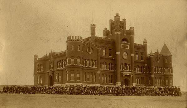 Photo of Northwestern Oklahoma State University before it burned down in 1935 Source Northwestern Normal School, 1895-1935 - Alva, Oklahoma, Woods County Photo apparently taken on January 22, 1901 (this date is printed on the front) Back of photograph reads, "BFS Elkton O.T. 2221 50 Guinn Warrick"